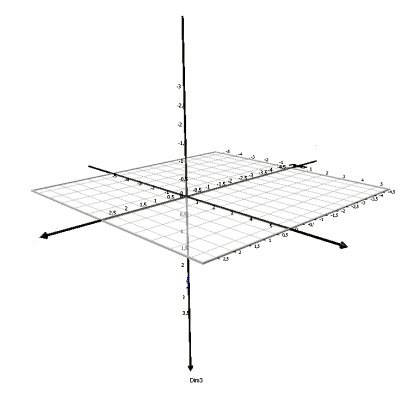 the 3 dimensions